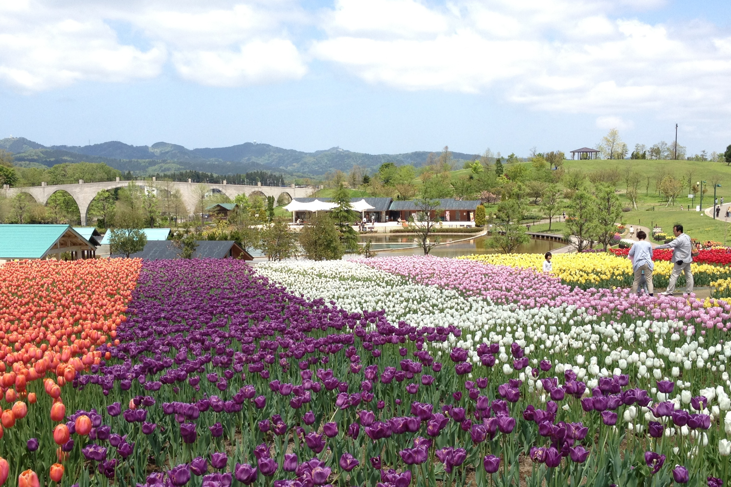 Tulip festival in Echigo Hillside National Government Park, Nagaoka, Niigata Prefecture, Japan